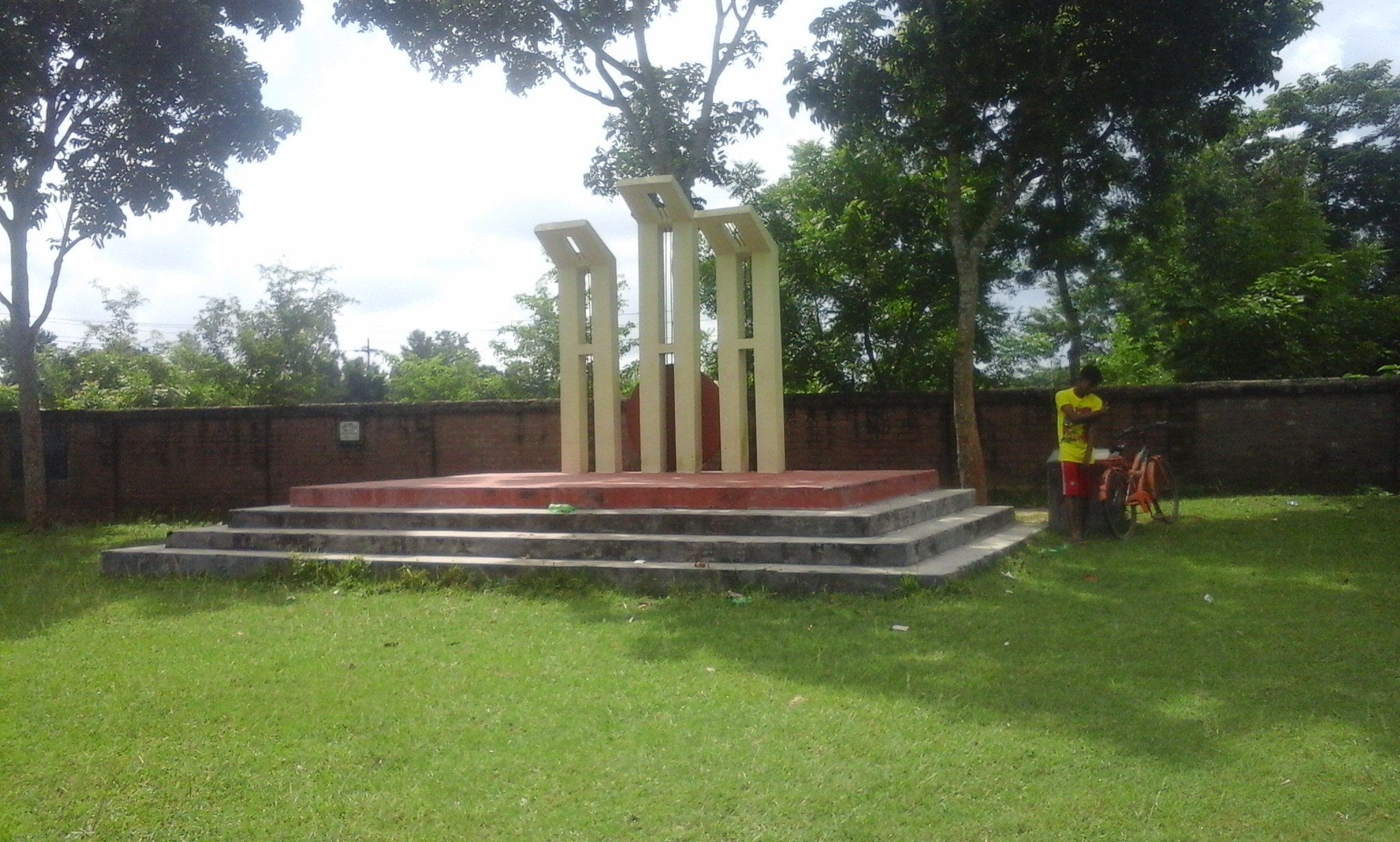 Myrter tower of Uthali College.